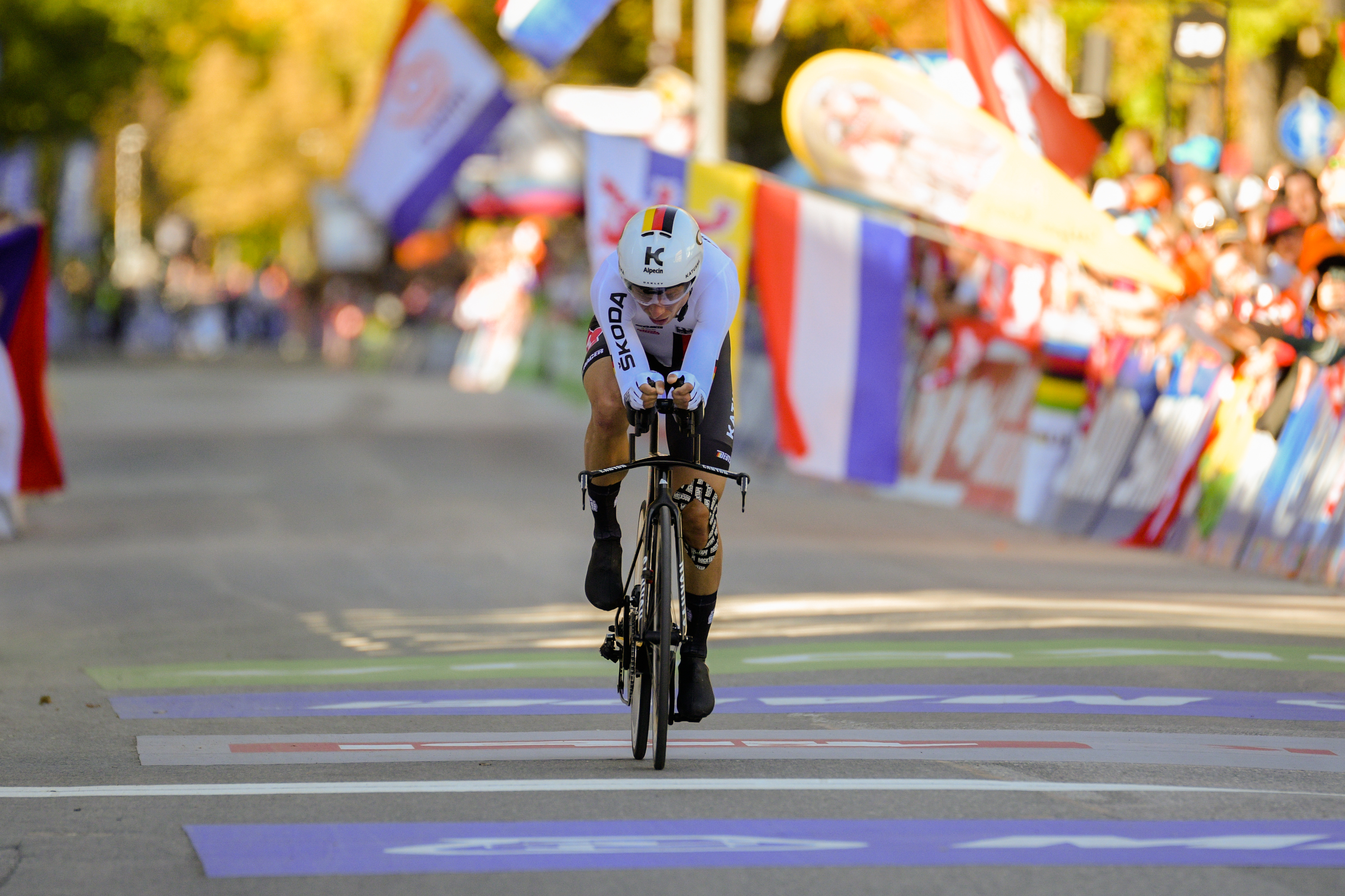 2018 UCI Road World Championships Innsbruck/Tirol Men's Individual Time Trial. Picture shows: Tony Martin of Germany crosses the finish line